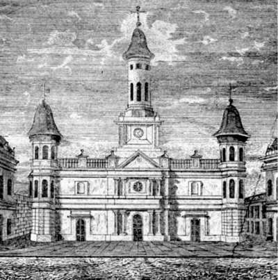 New Orleans: St. Louis Cathedral in 1838, before reworking of the cathedral with pointed spires